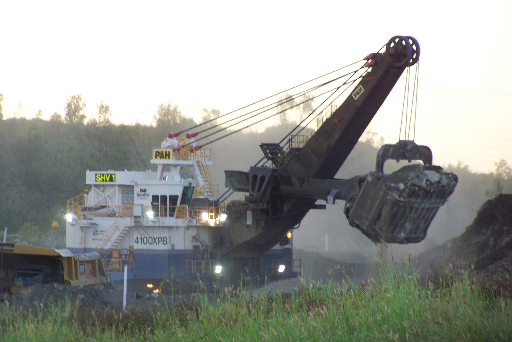 P&H 4100XPB shovel (electric) loading overburden (base obscured by grassy foreground) awaiting truck to reverse (lower left - partly obscured)